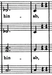 J. Brahms, Schicksalslied, Opus 54. Choral Excerpt 8.